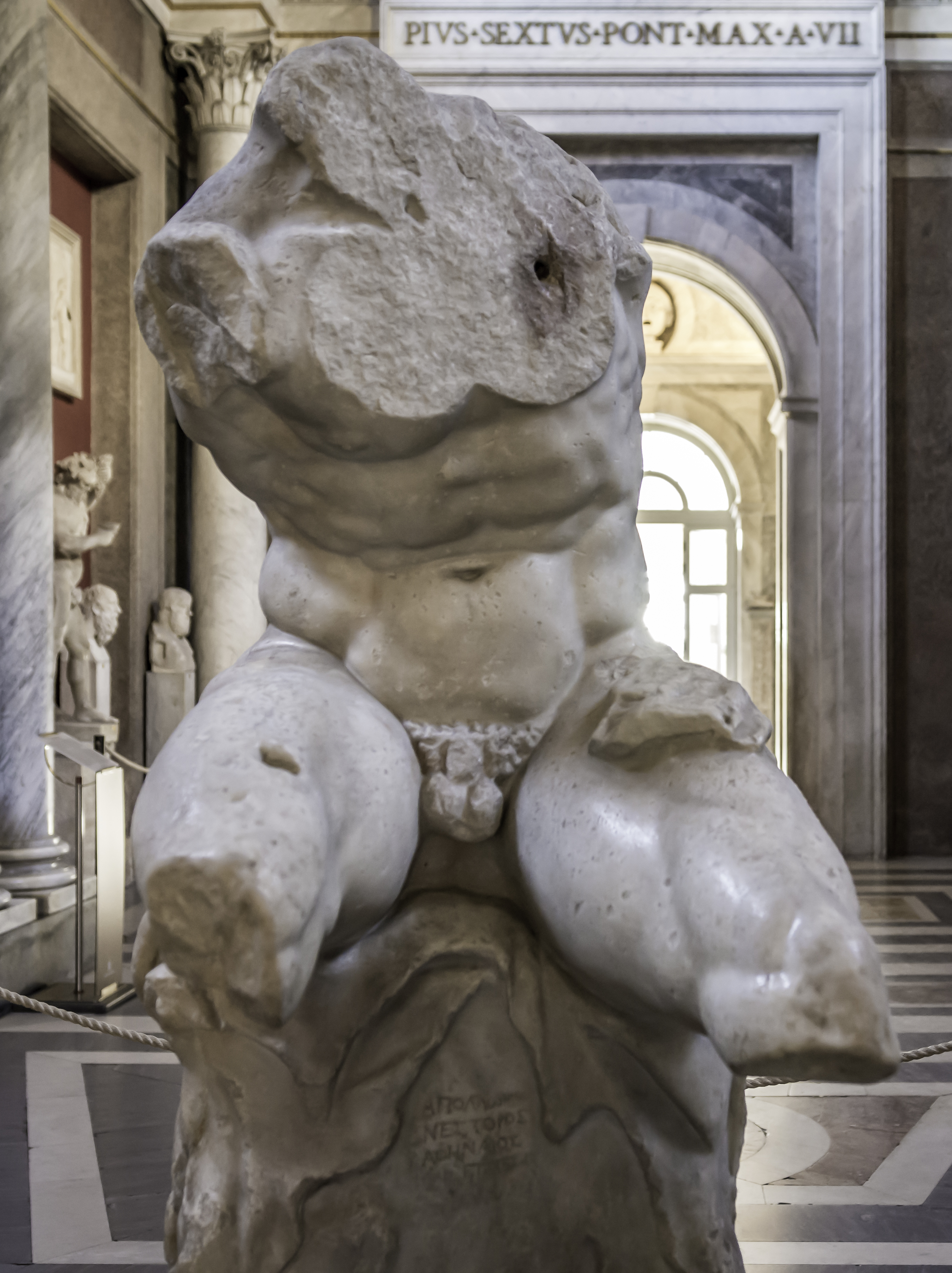 Belvedere Torso at the Vatican Museum